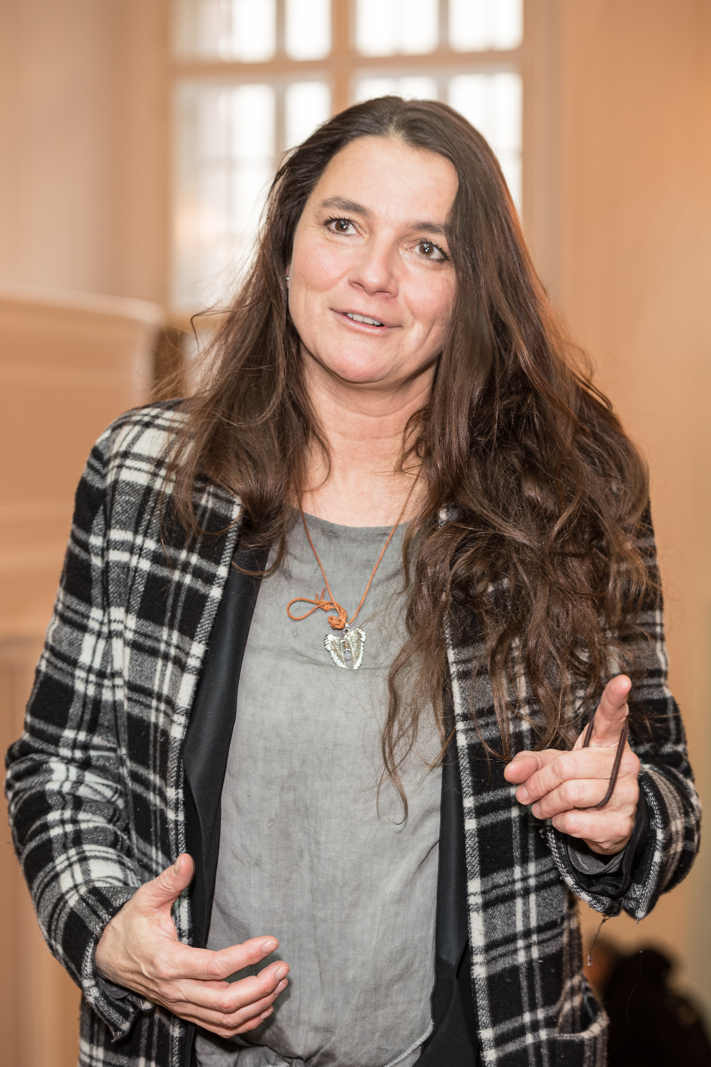 Katja von Garnier at the bavarien reception, Berlinale 2018